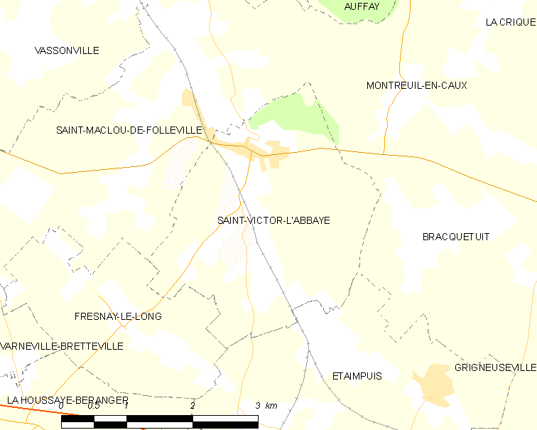 Map of French municipality Saint-Victor-l'Abbaye